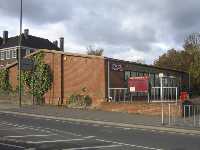 Crofton Roman Villa In this building, situated close to Orpington Station, are the remains of a roman villa. These were discovered in 1926, but only properly excavated in 1988